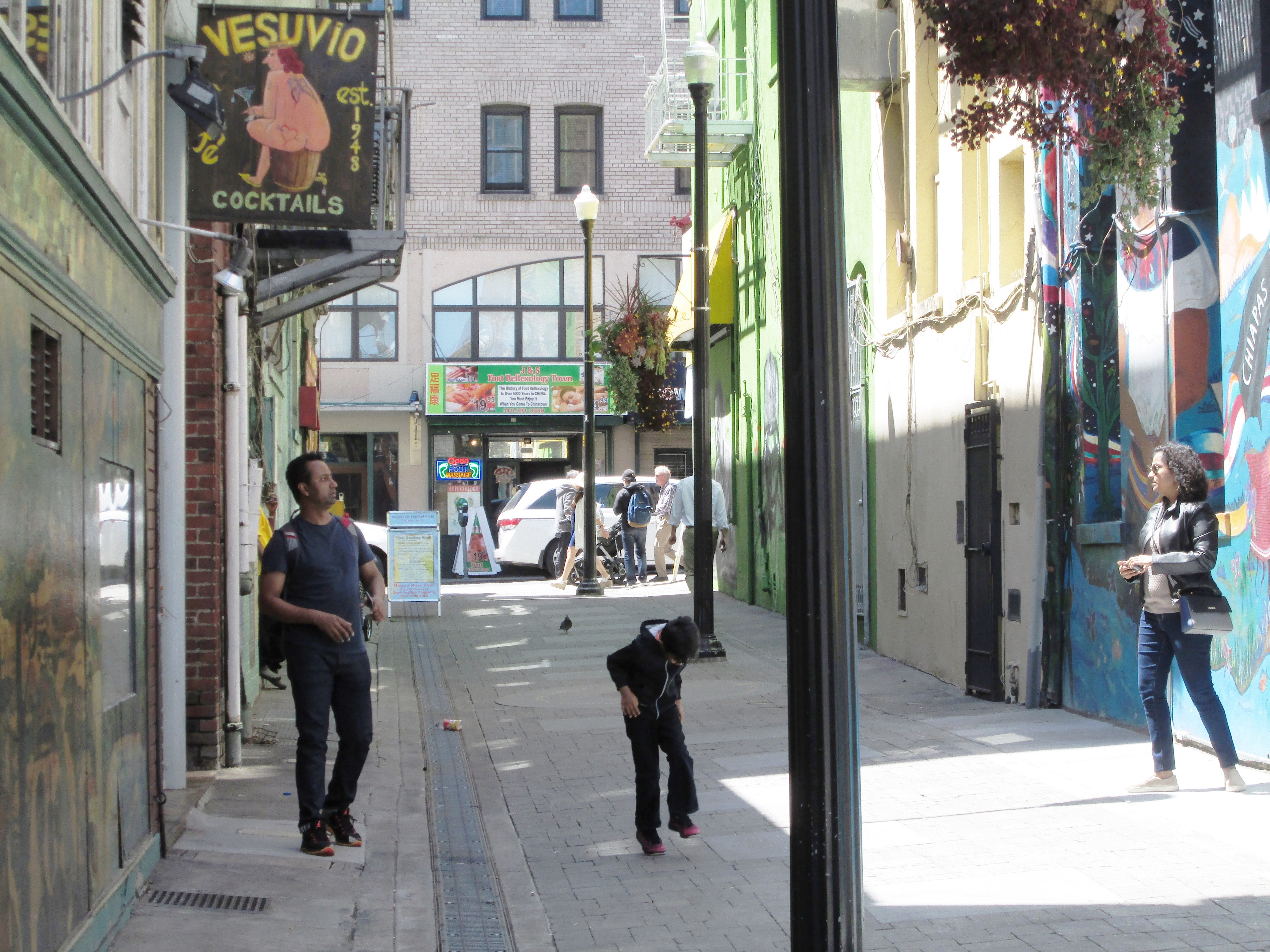 Jack Kerouac Alley, formerly called Adler Alley or Adler Place, and now named after the Beat Generation author, runs the one short block between Grant and Columbus Avenues in the North Beach neighborhood of San Francisco, California. The City Lights Bookstore is located on the northwest corner of the alley with Columbus Avenue. The alley was primarily used for dumping garbage when poet Lawrence Ferlinghetti, co-founder of the bookstore, developed the plan to repave the alley, make it into a pedestrian walkway, and dedicate it to Kerouac, who frequented the bookstore. The refurbished alley is now engraved with quotations, both Western and Chines, including from John Steinbeck, Maya Angelou, Ferlinghetti, and Kerouac himself. The alley was opened in March 2007 and a dedication ceremony was held in April of that year.Across Columbus Avenue from the alley is Saroyan Place, a short cul-de-sac named after the Armenian-American writer William Saroyan.